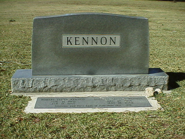 Photo is gift to me.Billy Hathorn (talk) 23:30, 3 July 2008 (UTC)